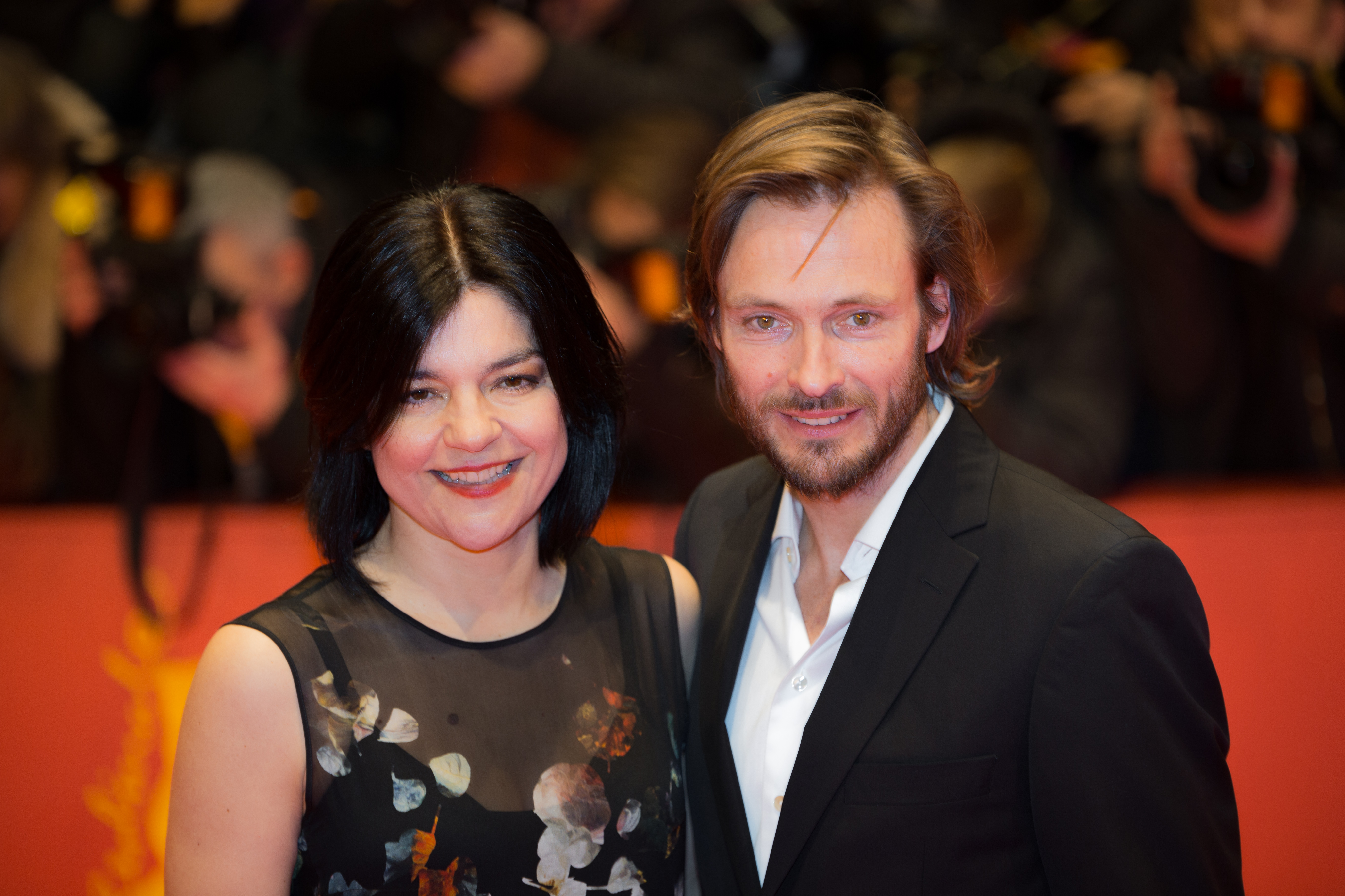 Jasmin Tabatabai and Andreas Pietschmann on the red carpet of the Berlinale 2017 opening film